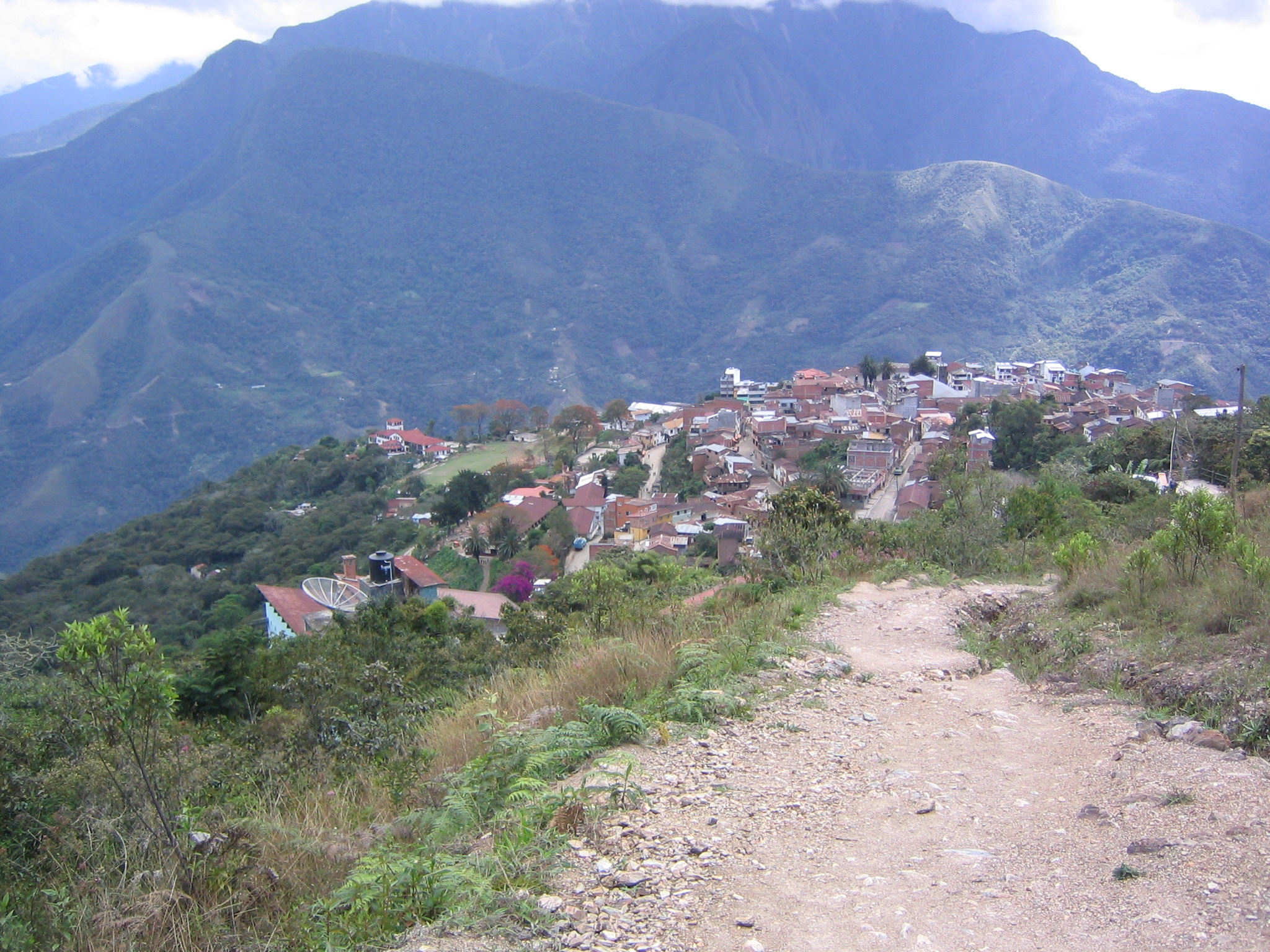 Looking back down on Coroico, Bolivia